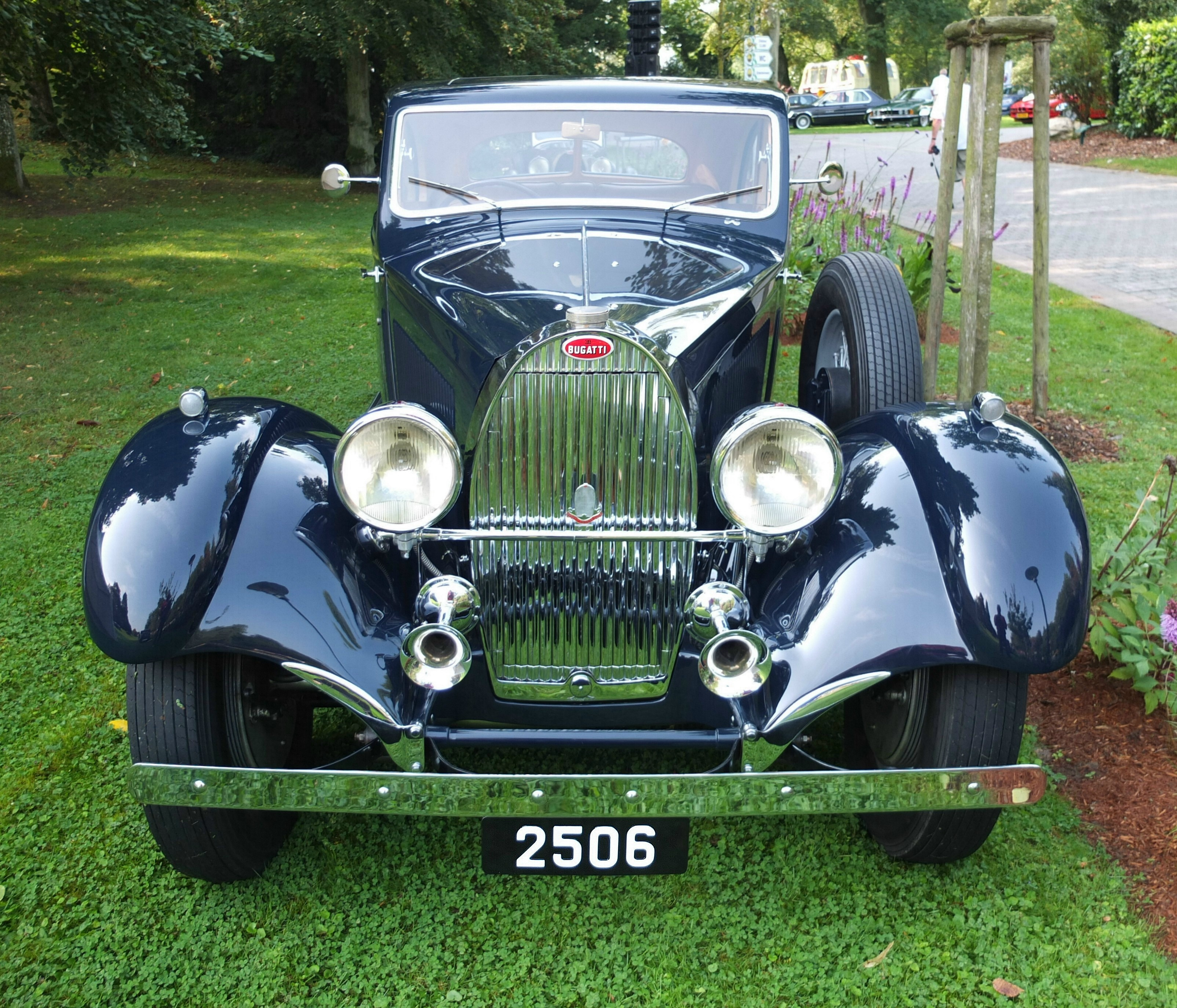 Front view of a Bugatti Type 57, "Sports Saloon" (built 1934) seen at Concours d'Élégance in Mondorf-les-Bains, Luxembourg. Bonhams Auction Feb. 2009: € 306,700